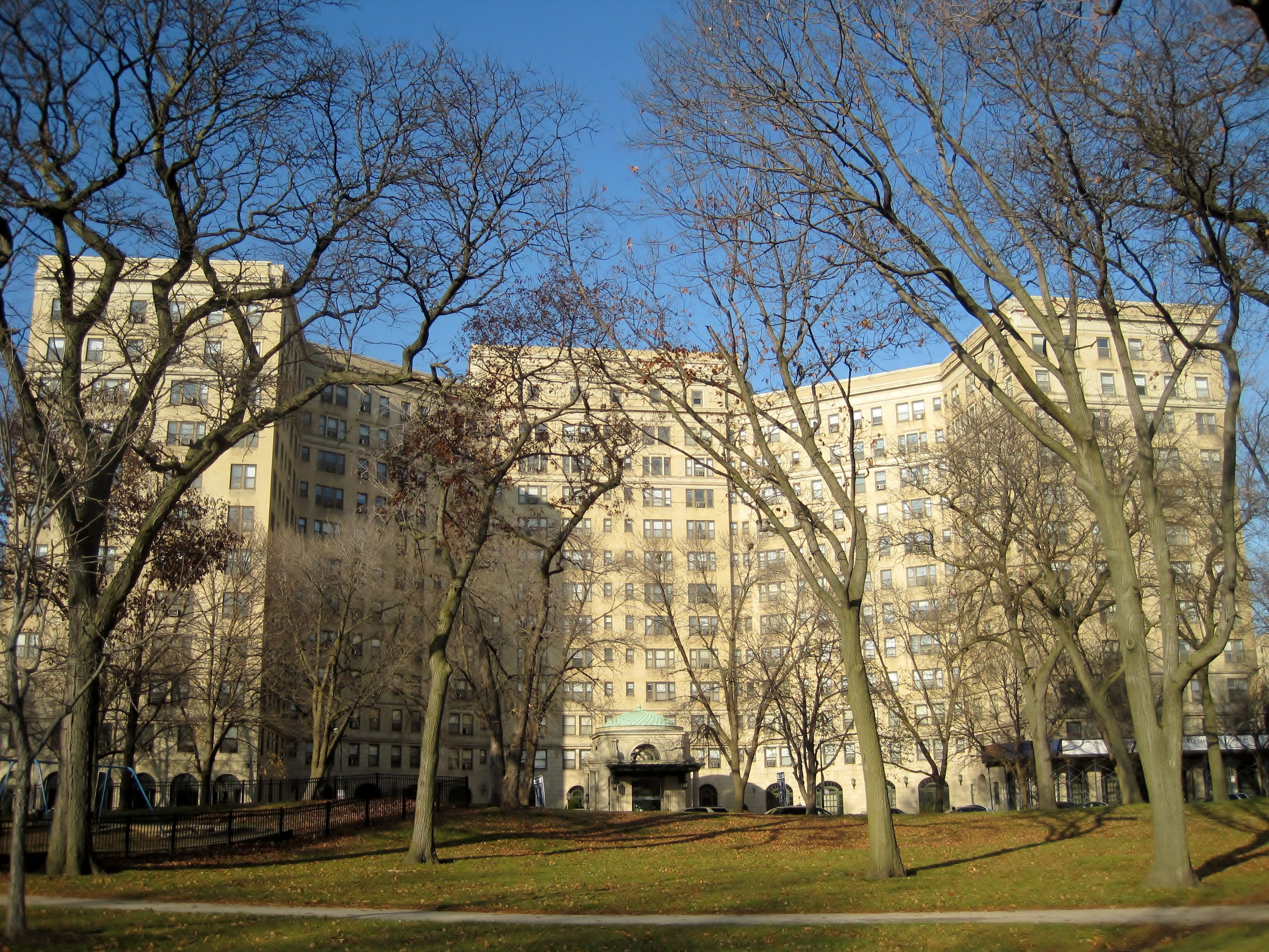 Hotel Windermere East in Chicago (1923). It was designed by the Rapp and Rapp firm, who mostly designed theaters and film-related buildings. It became famous for its elegance, and wealthy residents of Hyde Park would travel there for an English-style breakfast. It was the hotel of choice for those visiting the University of Chicago or the Museum of Science and Industry. The Baltimore Colts and Los Angeles Rams called the hotel home when they were in town to play the Bears or Cardinals. The construction of Midway Airport greatly reduced the demand for lakefront hotels, and the hotel struggled in the following decades. It was eventually purchased by the university to prevent its dilapidation. It was sold to a private group in 1980, who restored it.